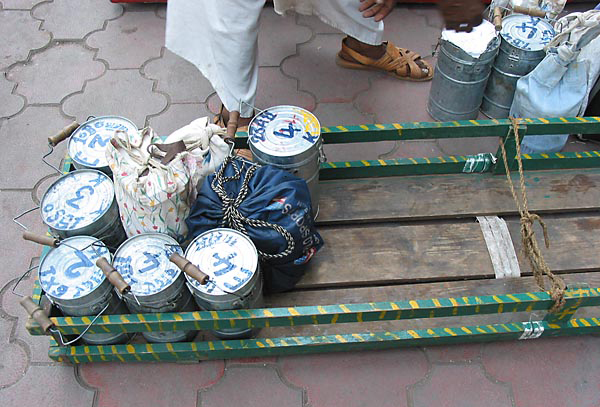 Dabbawala lunchboxes with special signs showing their destination on a cart.